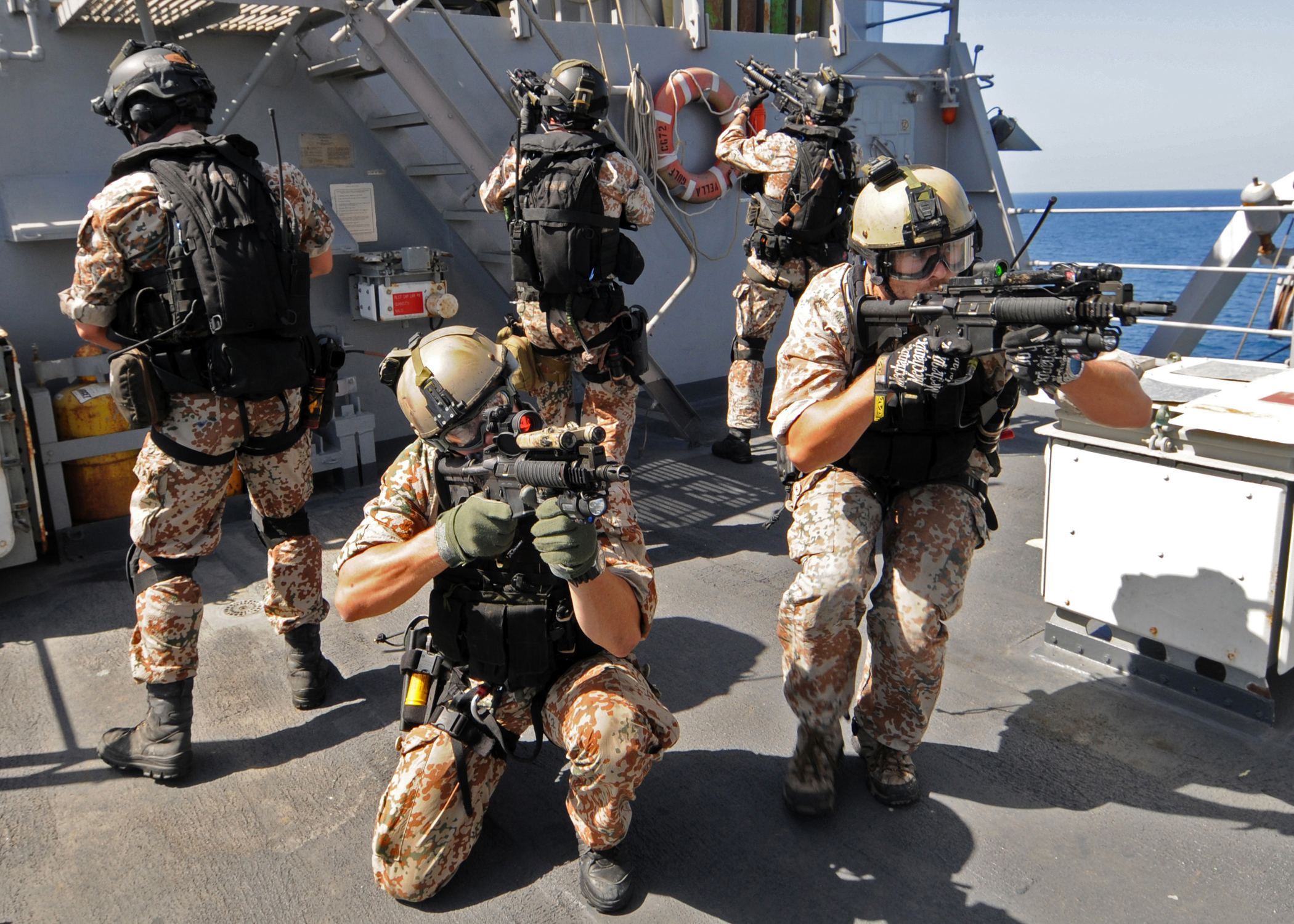 GULF OF ADEN (Feb. 19, 2009) The visit, board, search and seizure team assigned to the Danish flexible support ship HDMS Absalon (L 16) trains by boarding the guided-missile cruiser USS Vella Gulf (CG 72). Vella Gulf is the flagship for Combined Task Force 151, a multi-national task force conducting counter-piracy operations to detect and deter piracy in and around the Gulf of Aden, Arabian Gulf, Indian Ocean and Red Sea. (U.S. Navy photo by Mass Communication Specialist 2nd Jason R. Zalasky/Released)